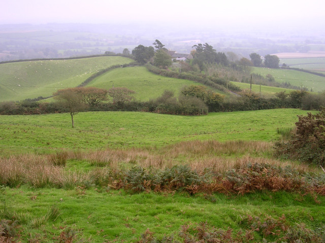 Atlas of Hillforts 3603 View towards Pilsdon Barn from Pilsdon Pen